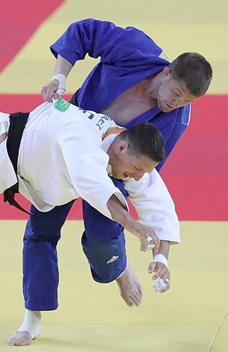 Judo at the 2016 Summer Olympics – Men's 100 kg